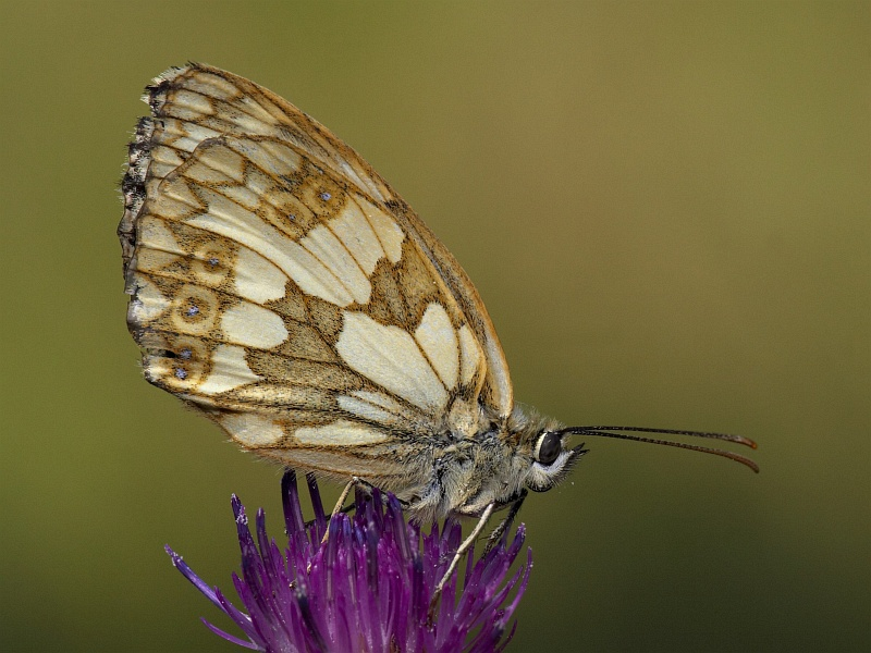 Melanargia galathea, female